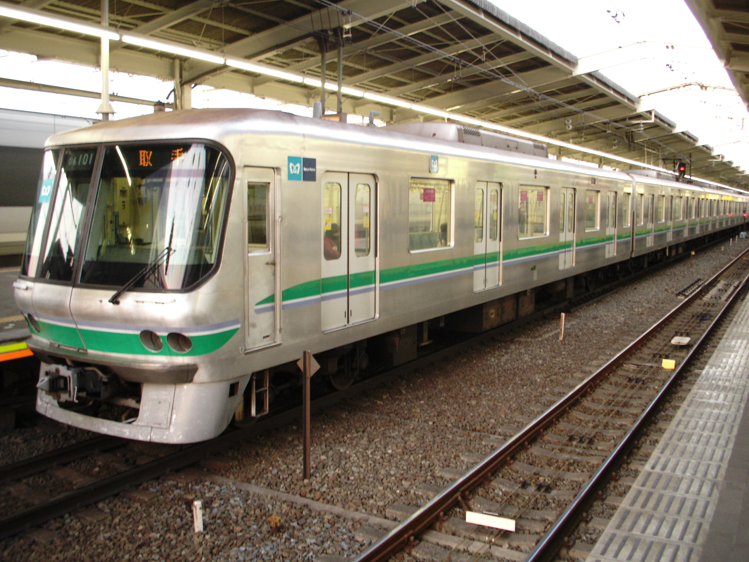 The sole Tokyo Metro 06 series EMU at Yoyogi-Uehara Station